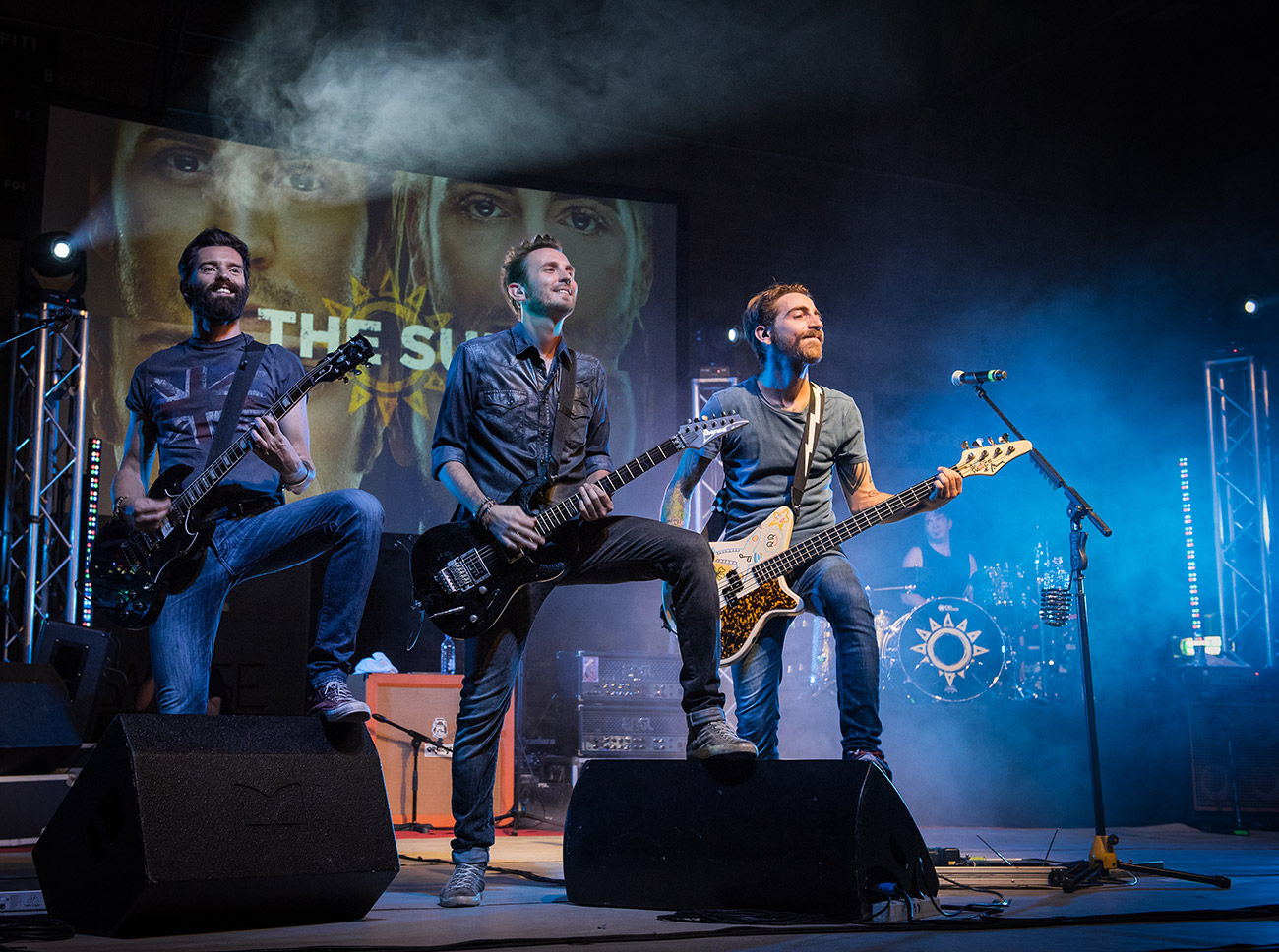 Performance live dei The Sun @ Besana Brianza (MB)